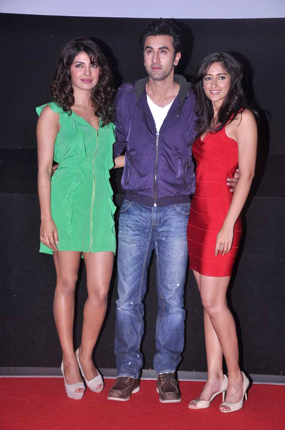 Priyanka Chopra, Ranbir Kapoor, Ileana Dcruz at the launch of 'Barfi!' promo